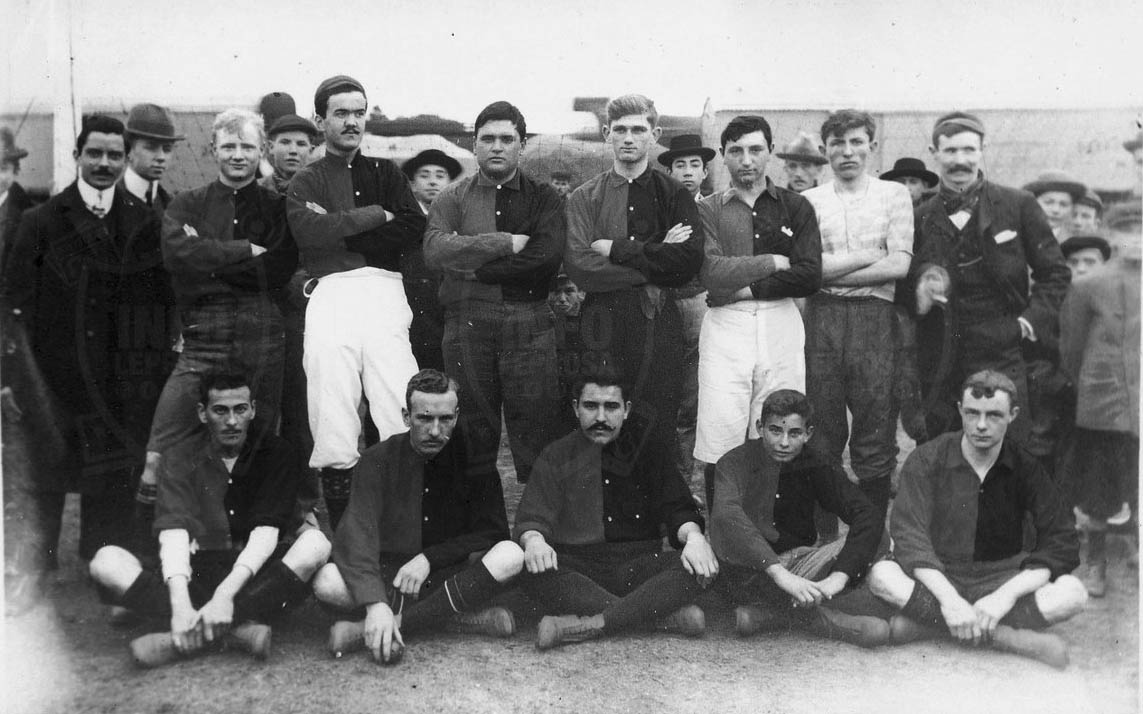 Team of Newell's Old Boys before playing their first official match, v. Argentino (today "Gimnasia y Esgrima de Rosario"). (Up): J. P. Jordi, Wallace W. Wheeler, Antonio Fradua, José Hiriart, Deolindo Barcelone, Agapito Balbiani, José Caloso (gk), Miguel Green (referee). (down): Víctor Heitz, Guillermo Moore, Faustino González, José Viale, A. Lyon Pats.